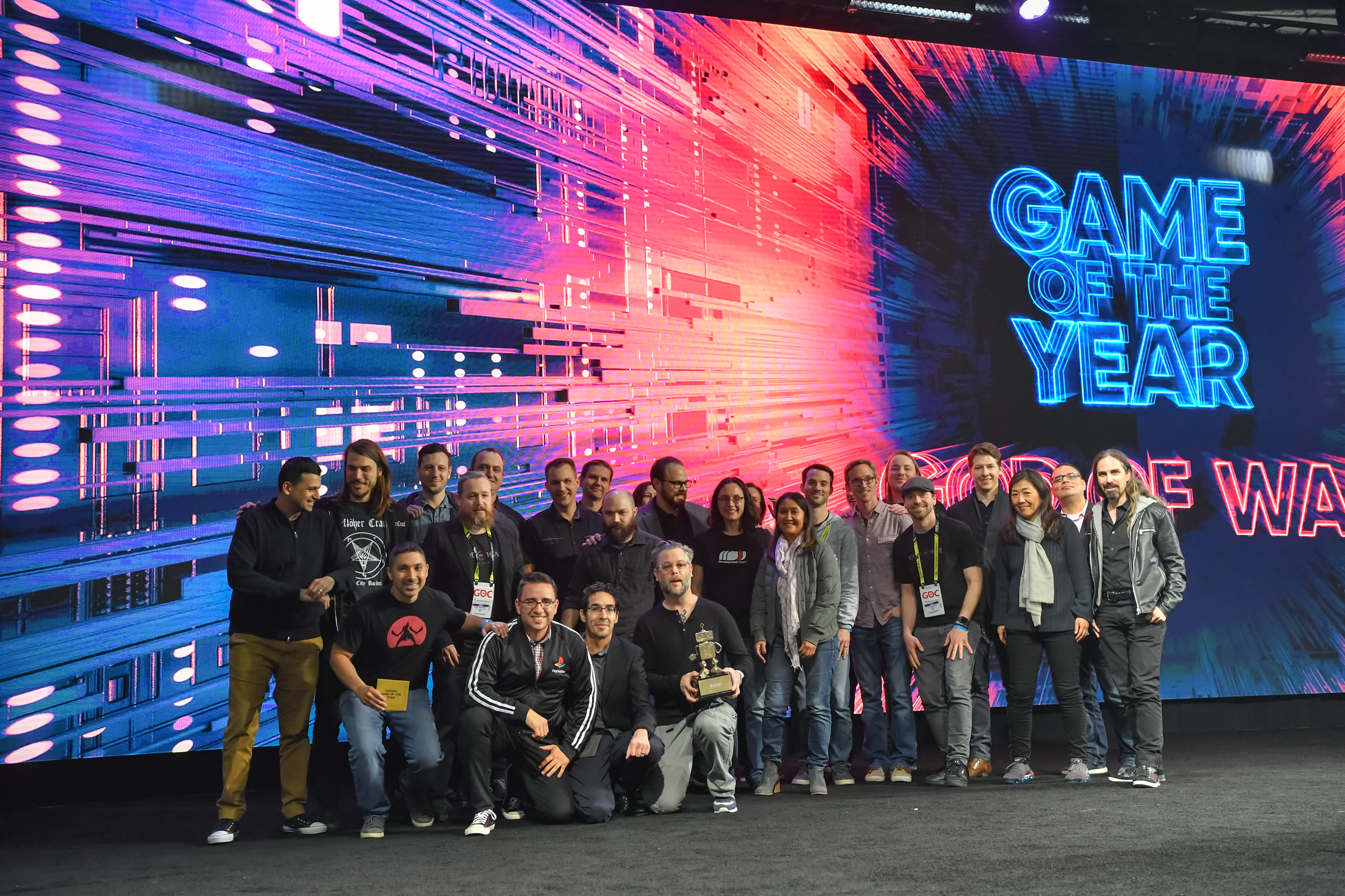 Cory Barlog and the team at SIE Santa Monica Studio pose with their 2018 Game of the Year award for God of War.